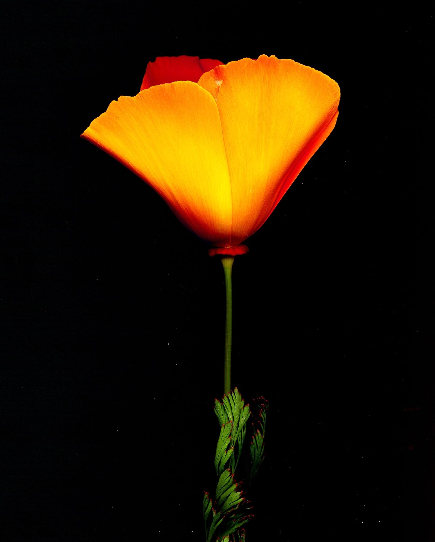 Scanned California Poppy (Eschscholzia californica)